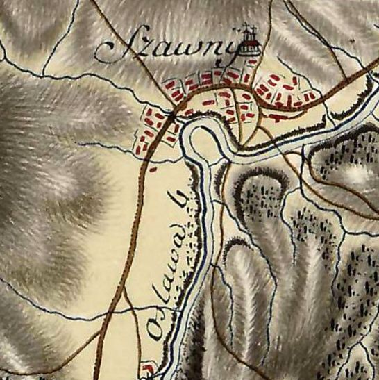 Szczawne